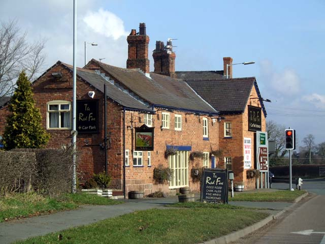 The Red Fox. THe Red Fox public house at four Lane Ends